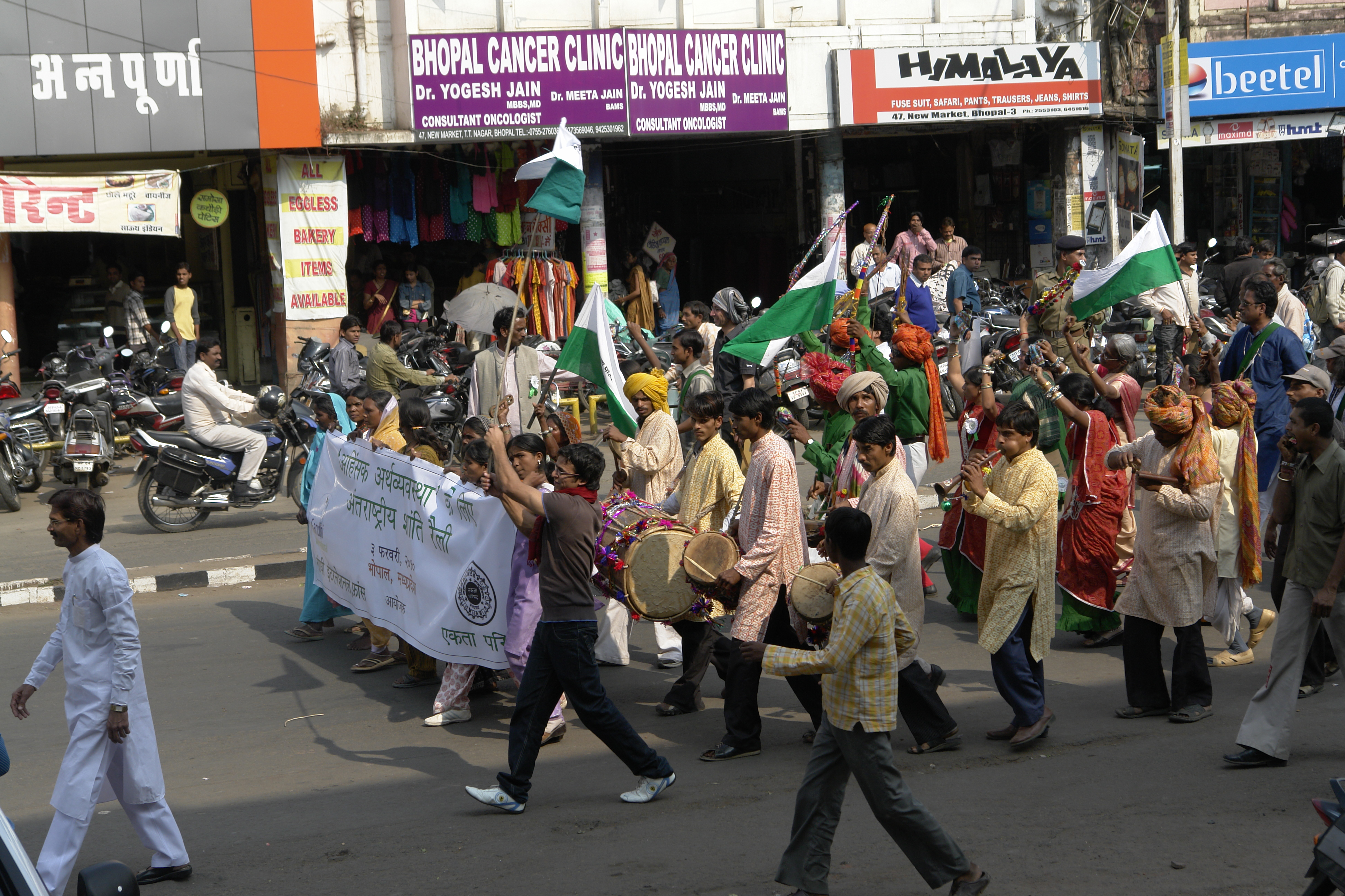 Rally, Bhopal, India.